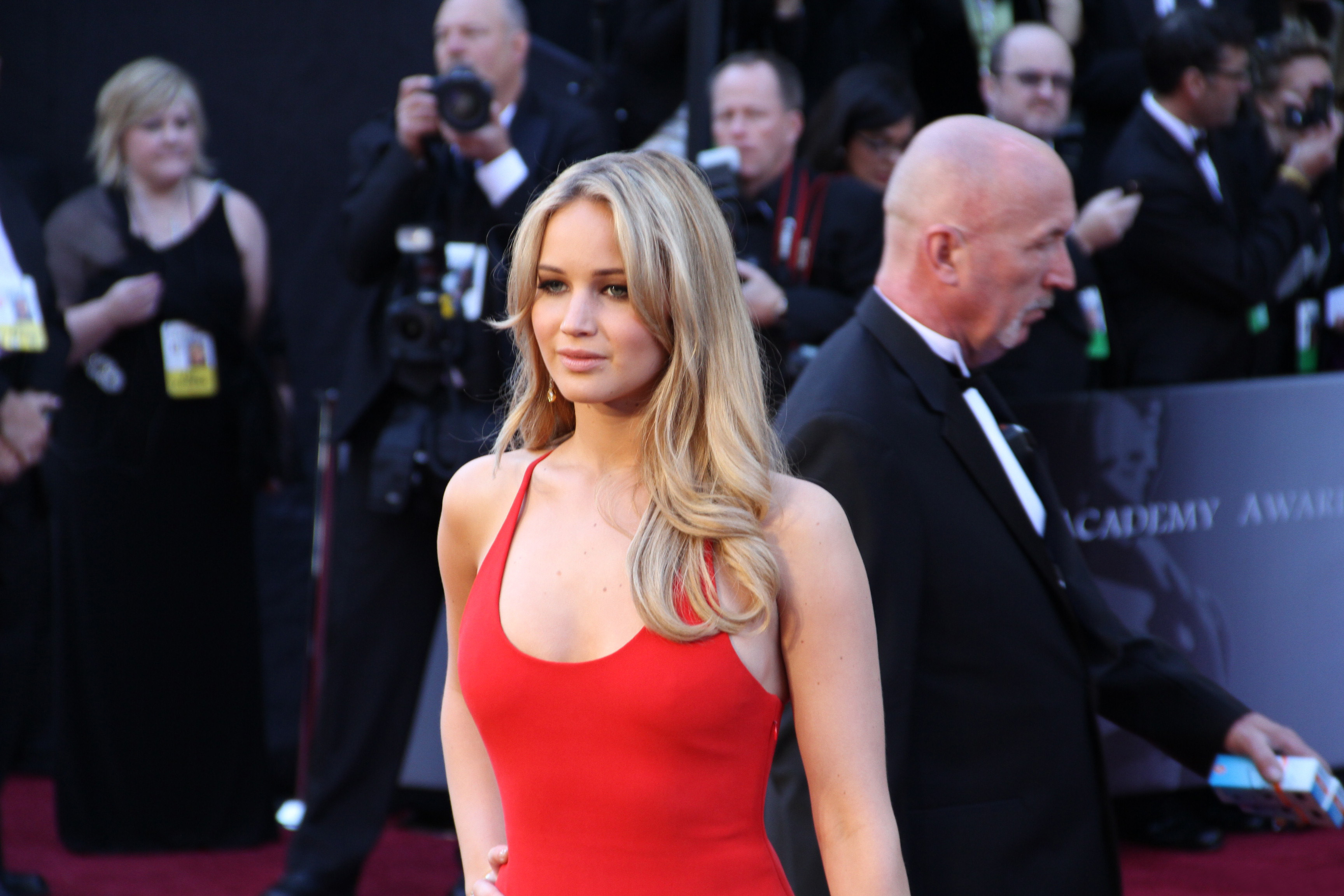 Jennifer Lawrence on the red carpet at the 83rd Academy Awards